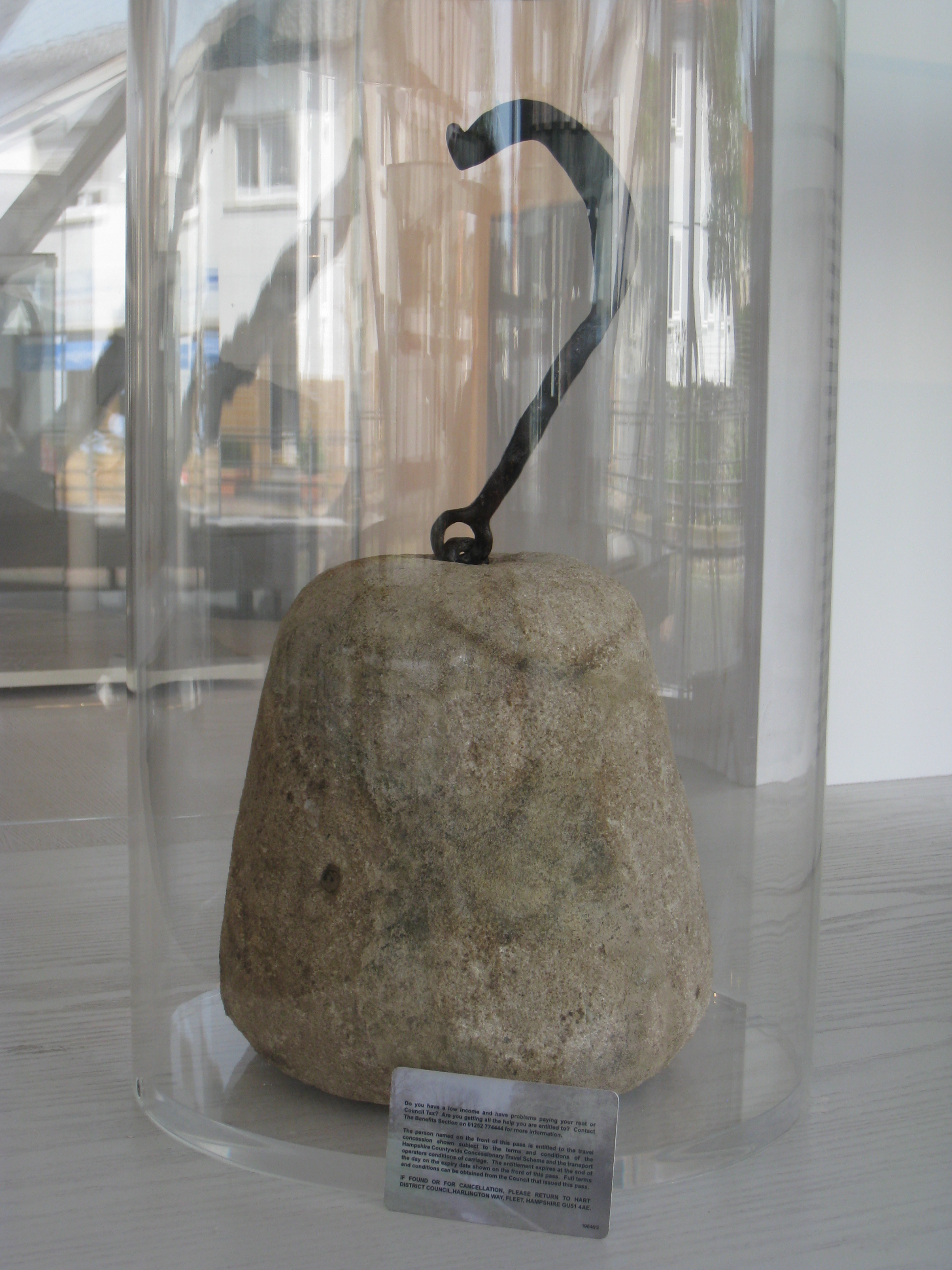 A Roman 40 librae (about 13 kg or 29 lb) stone weight c 200AD on display in the Eschborn Museum, Eschborn, Germany (10 km NW of Frankfurt-am-Main). The weight (with hook) is 41.7 cm high and the stone itself is 21.5 cm high and its diameter is also 21.5 cm. The Roman libra (or pound) was 327.45 g (11.6 oz). The "credit card" in the foreground illustrates its size.